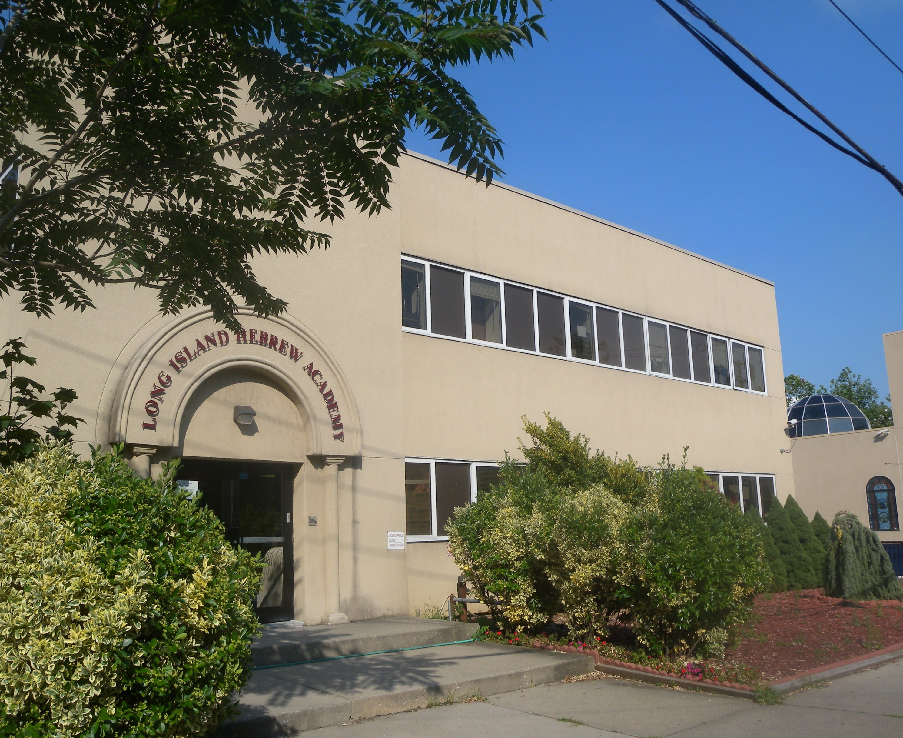 Looking east from Bayview Avenue at LI Hebrew Academy on a sunny late afternoon.